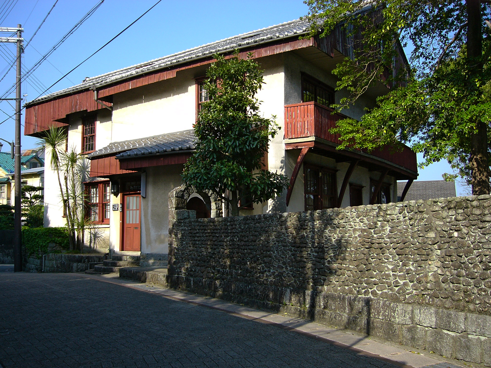 Nishimura Memorial Museum, Shingu, Wakayama prefecture, Japan